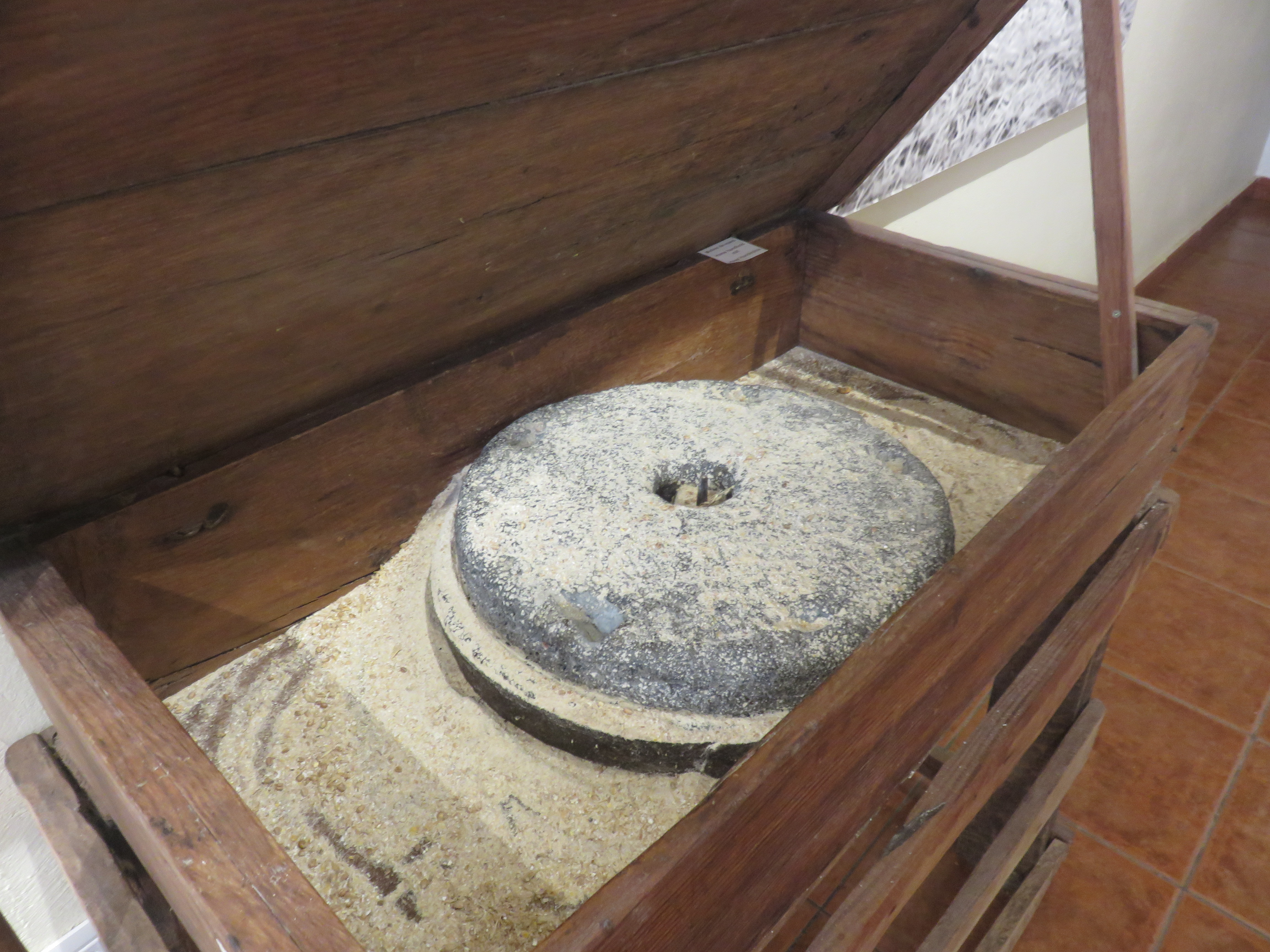 Hand mill in the museum El Molino de Las Tricias